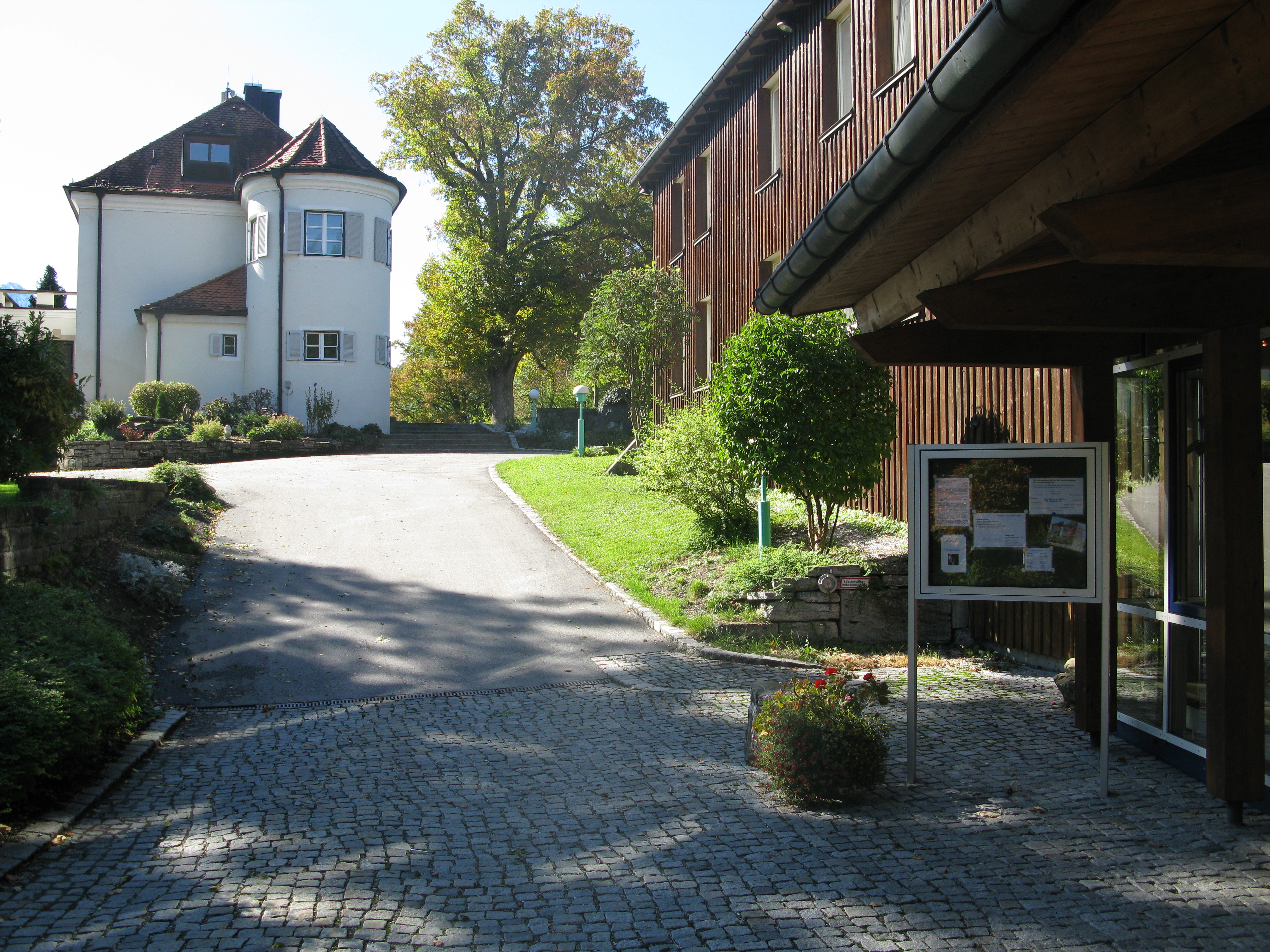 The Schloss Aspenstein - home of the Georg-von-Vollmar-Akademie in Kochel am See in Upper Bavaria, Germany.